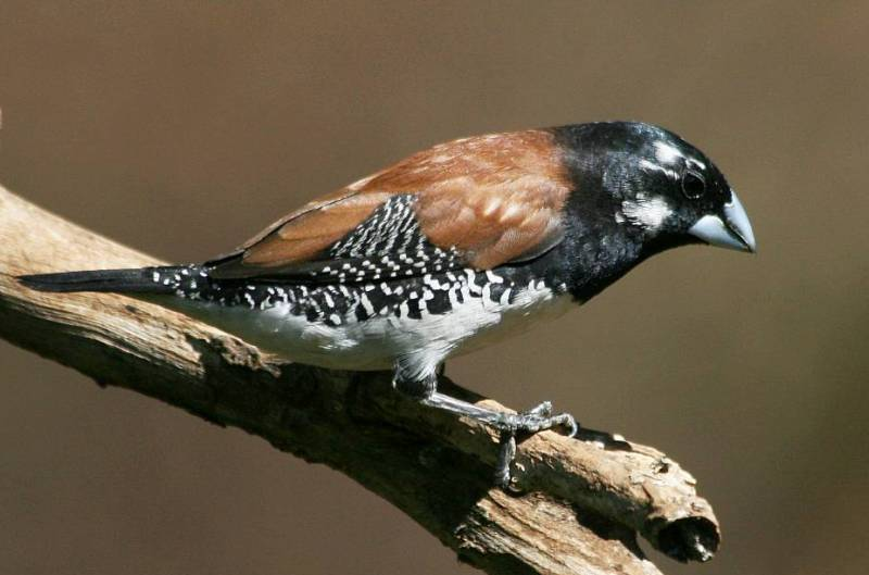 Partially leucistic adult Red-backed Mannikin (Lonchura nigriceps). Once considered a subspecies of Black-and-white Mannikin (Lonchura bicolor, syn. Spermestes bicolor), but many authorities now split the birds from south-eastern Africa as Red-backed or Brown-backed Mannikin (L. nigriceps).